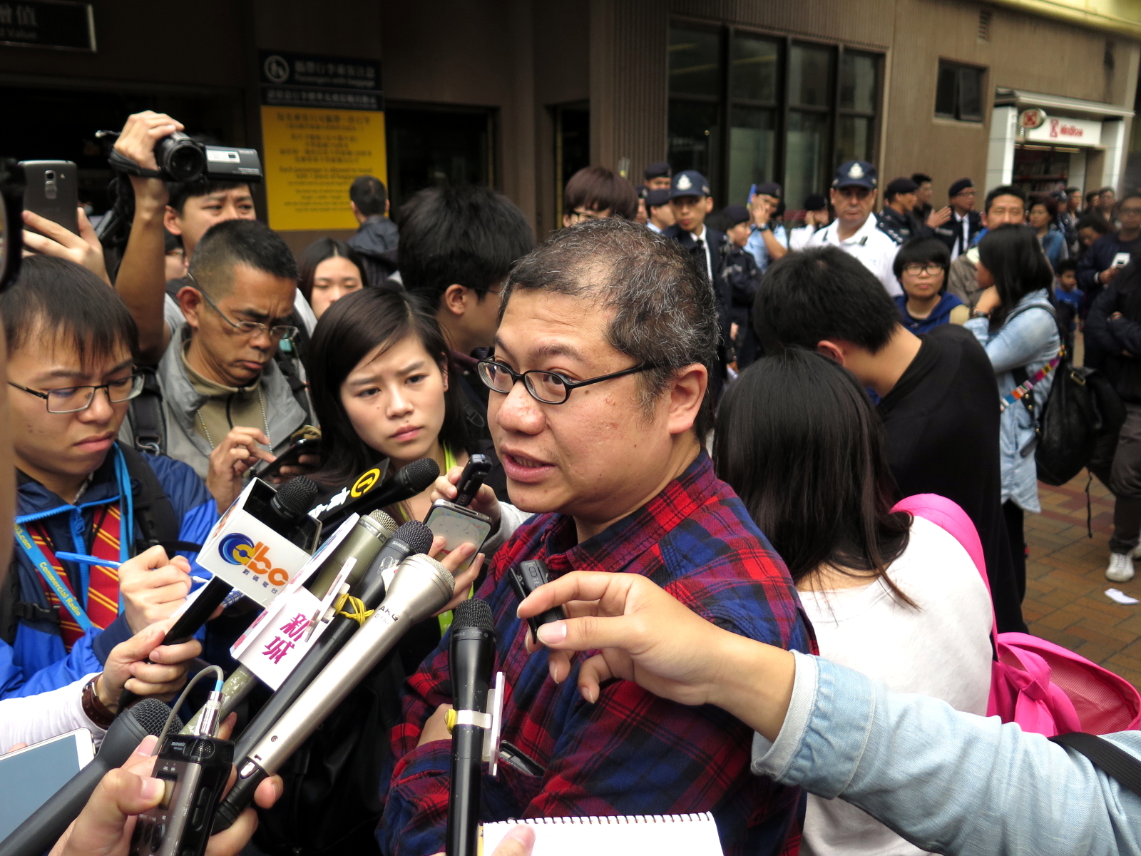 Ronald Leung in Sheung Shui Station outside